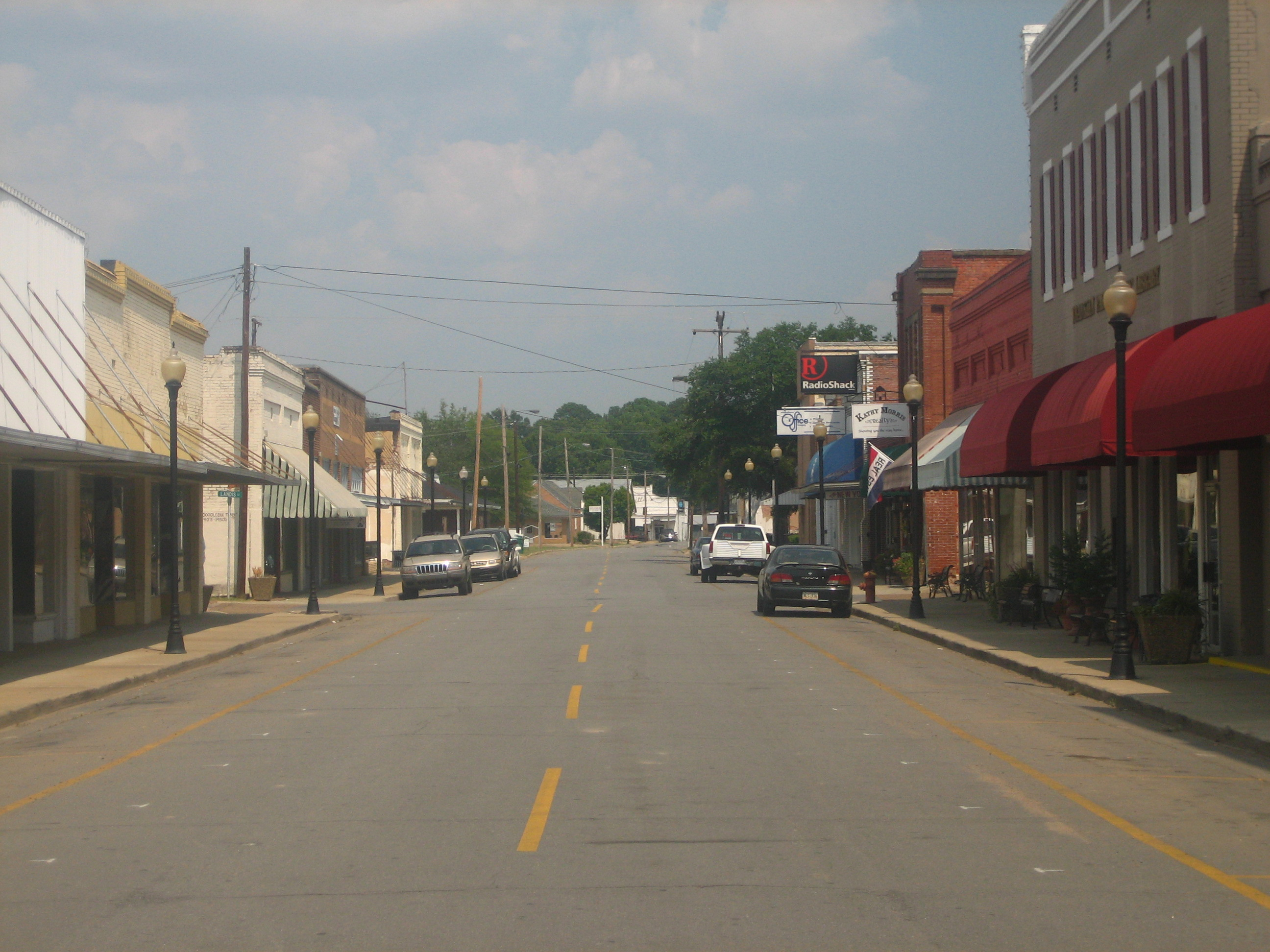 Winnsboro, Louisiana. I took photo on Aug. 2, 2008.Billy Hathorn (talk) 03:31, 17 August 2008 (UTC)